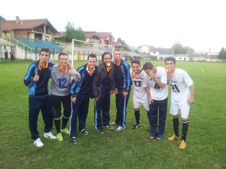 Zajazi medal